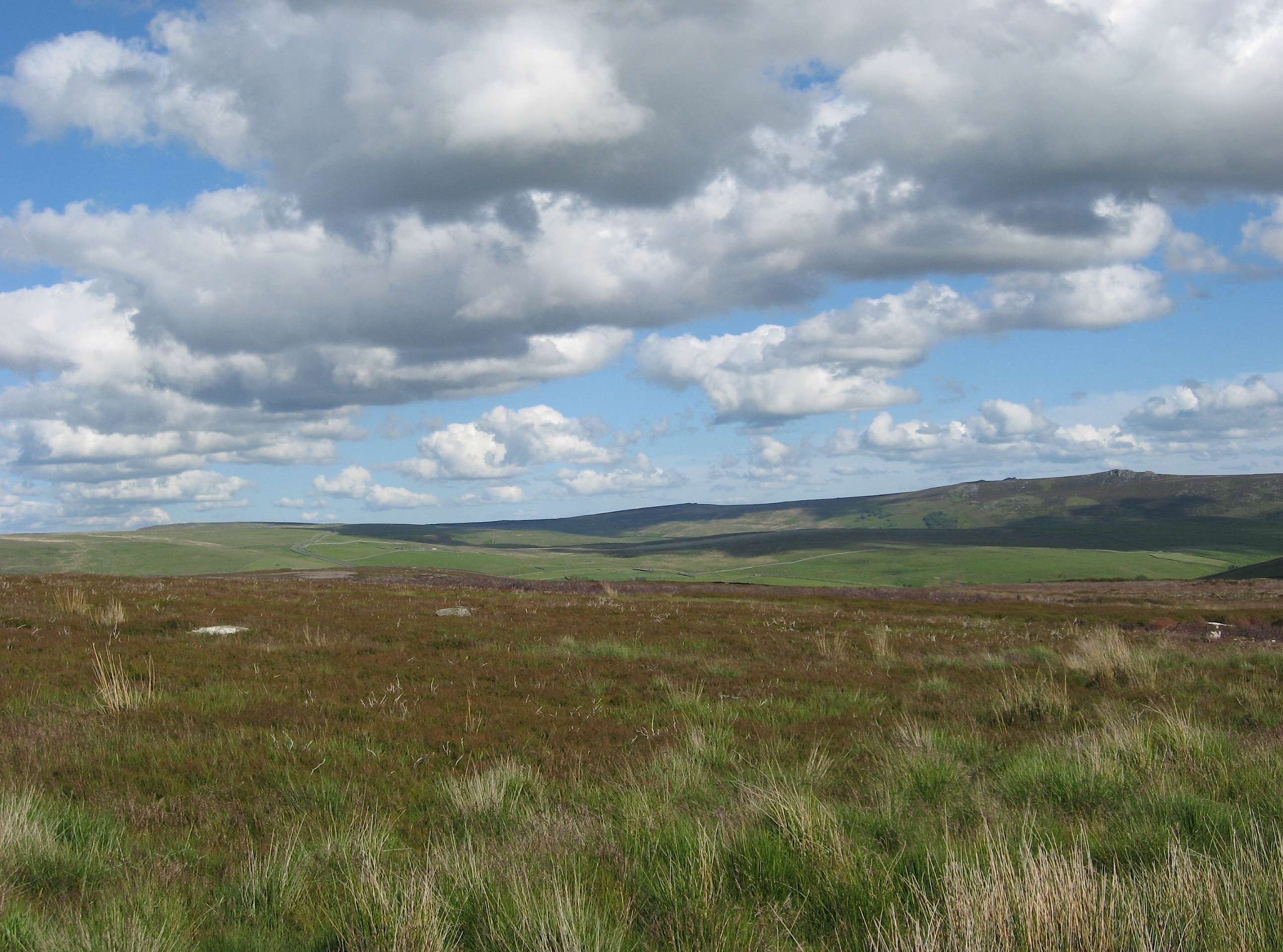 Typical moorland and cloud formations, NE of Hebden, looking towards Simon's Seat